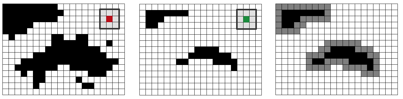 Example of morphological opening on binary picture.